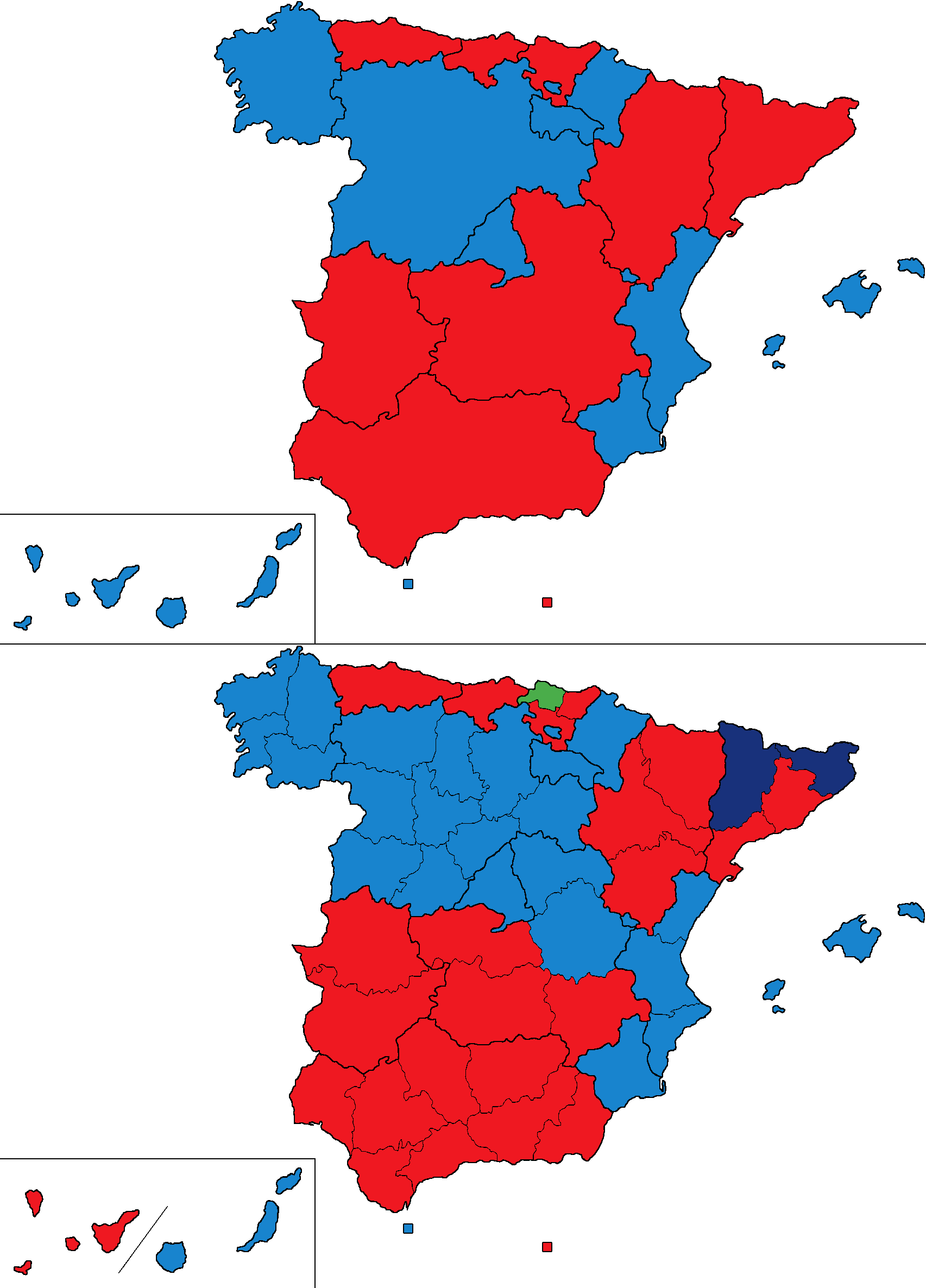 Most voted party in the 1993 Spanish Congress of Deputies election by autonomous communities and provinces.